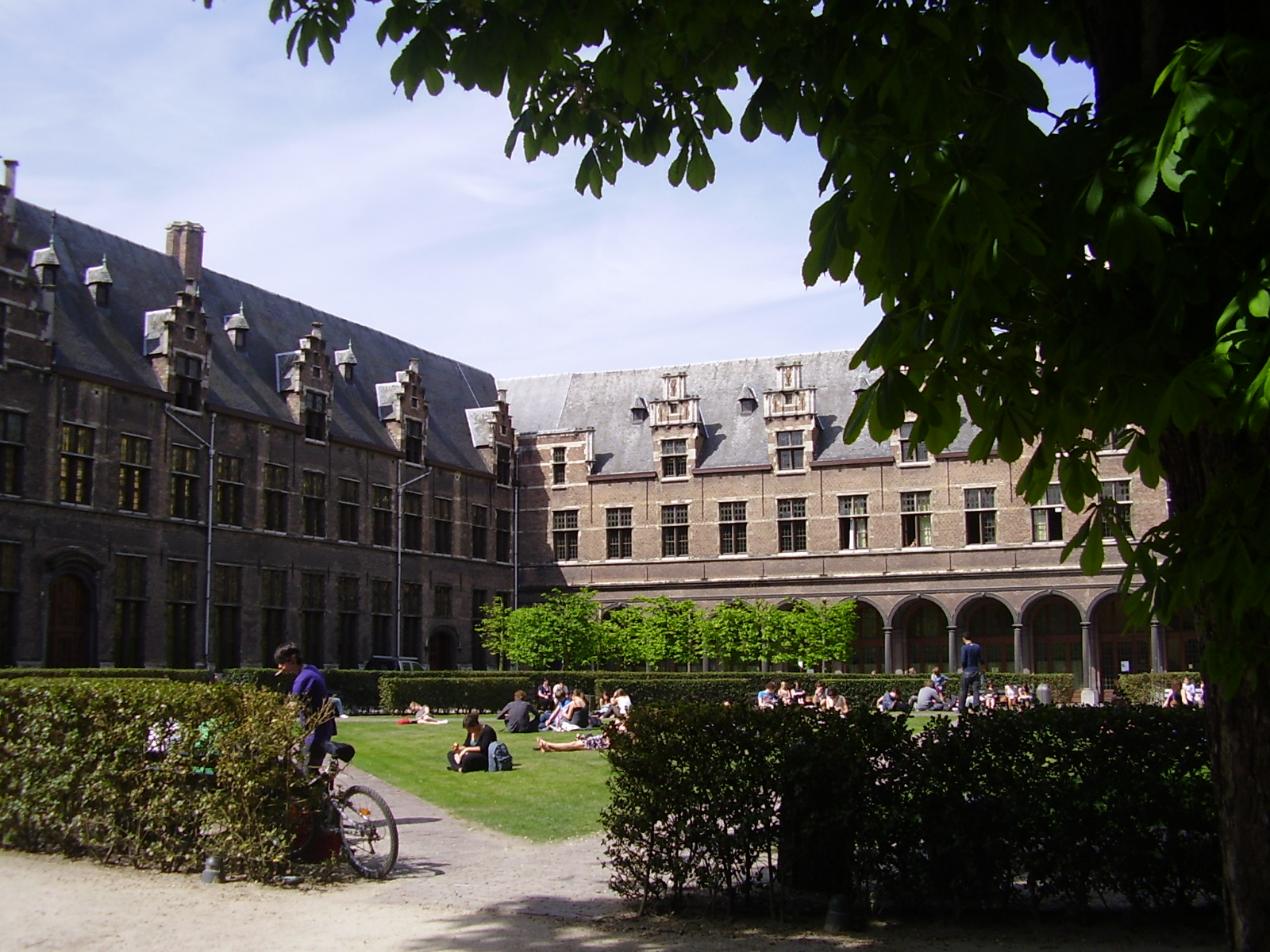 CityCampus of the University of Antwerp